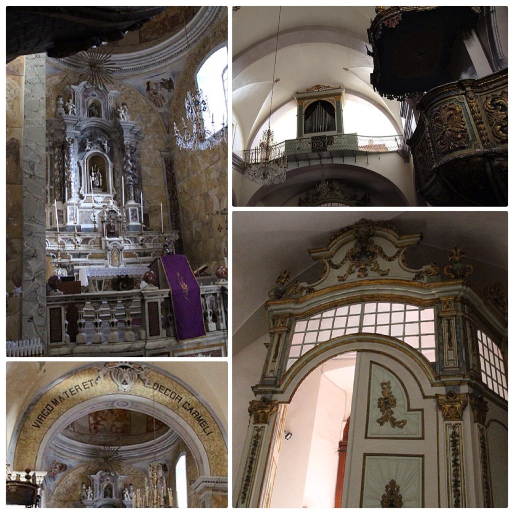 Church of Carmine, Bosa